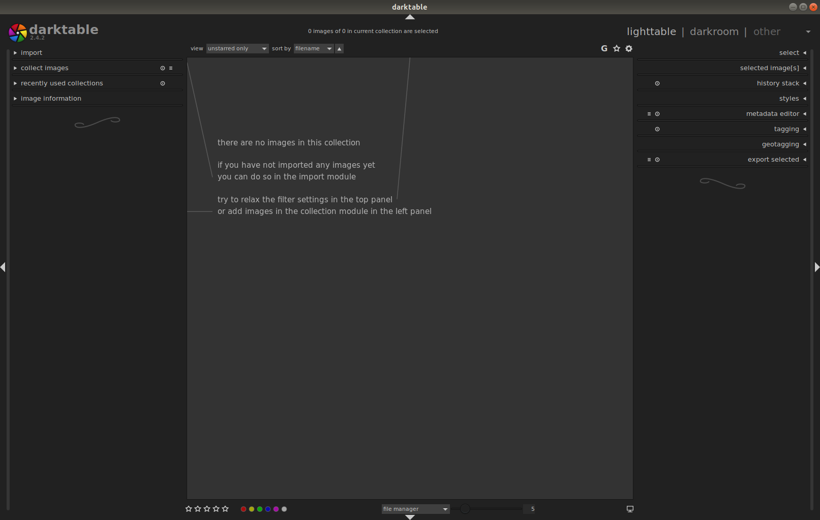 Default interface of Darktable 2.4.2 on Ubuntu 18.04 with no image open for editing.